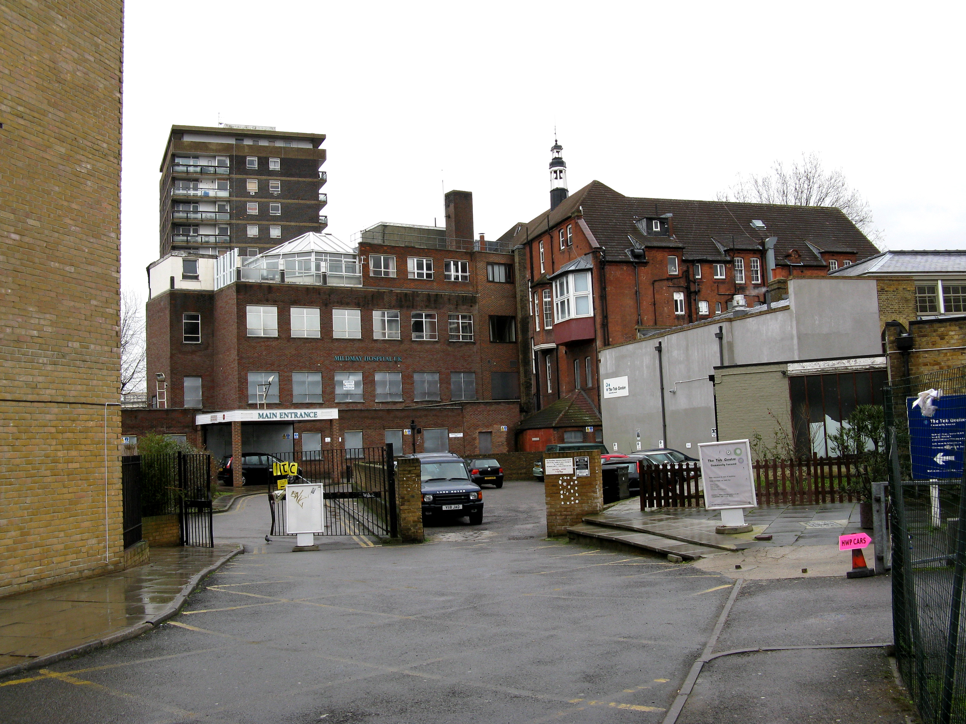 Mildmay Hospital Off Bethnal Green Road